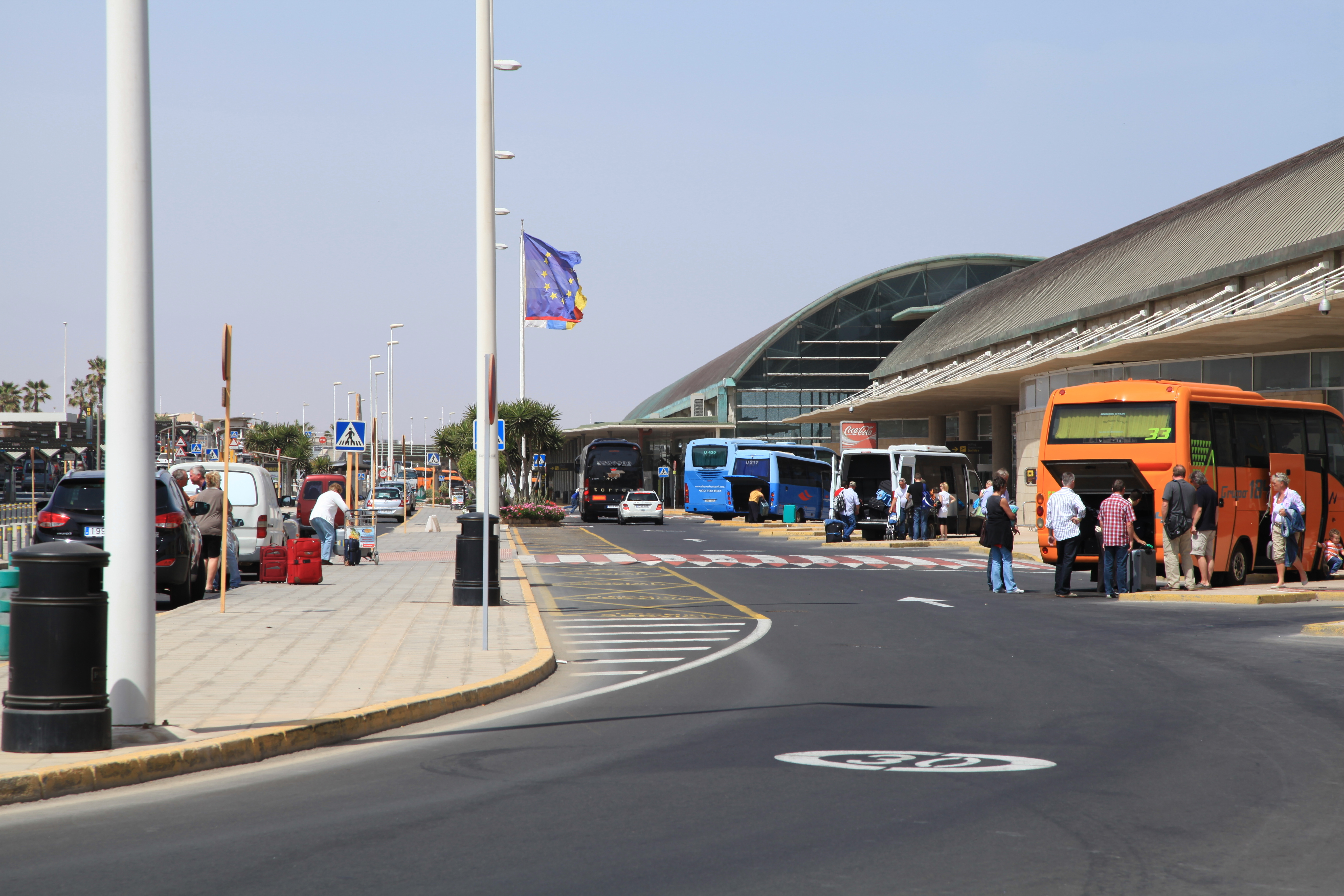 Airport in Puerto del Rosario, Fuerteventura, Canary Islands